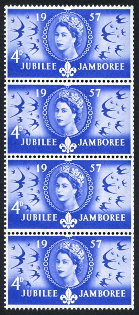 1957 Scouts stamp in coil strip.